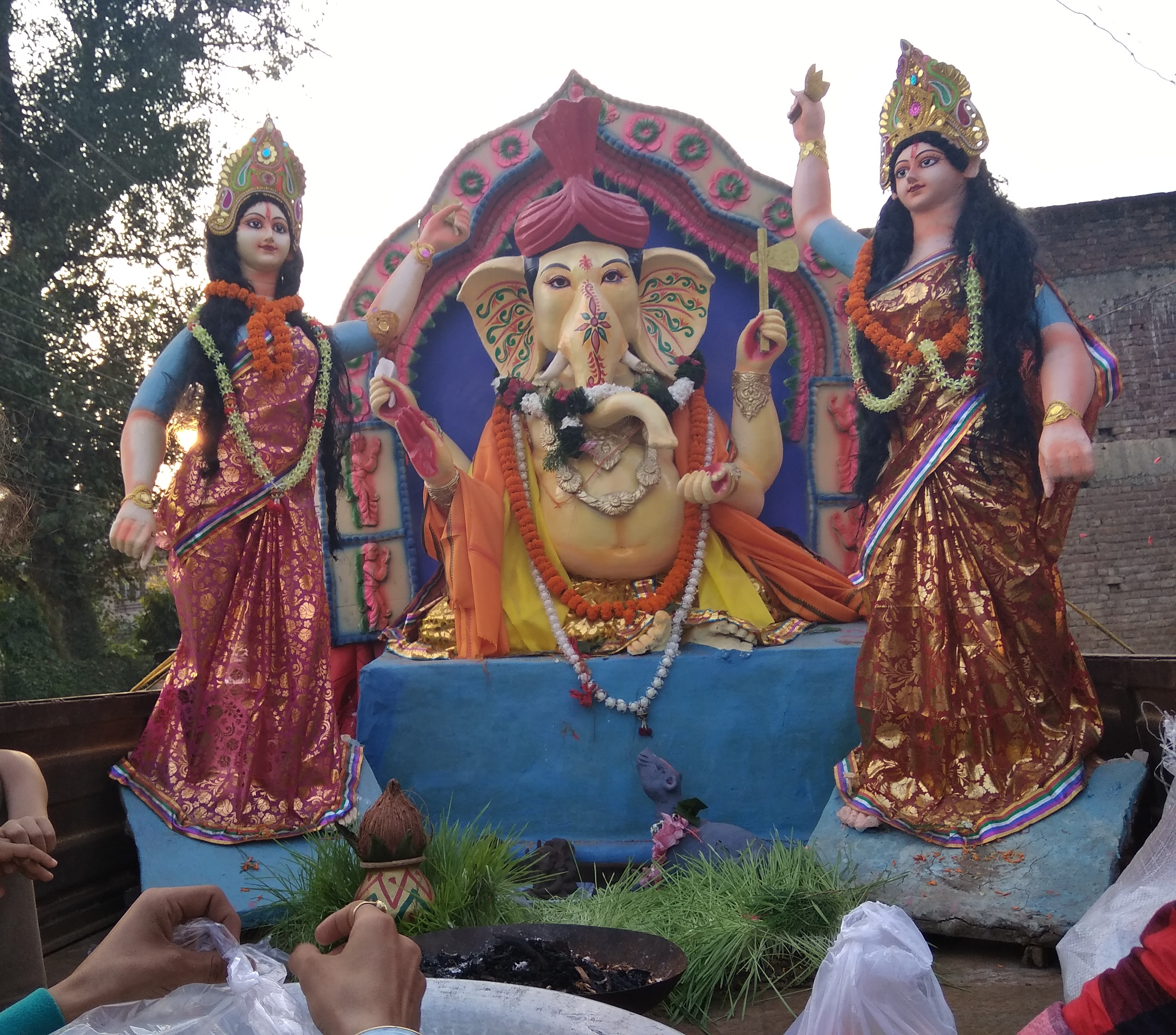 Ganpati bappa